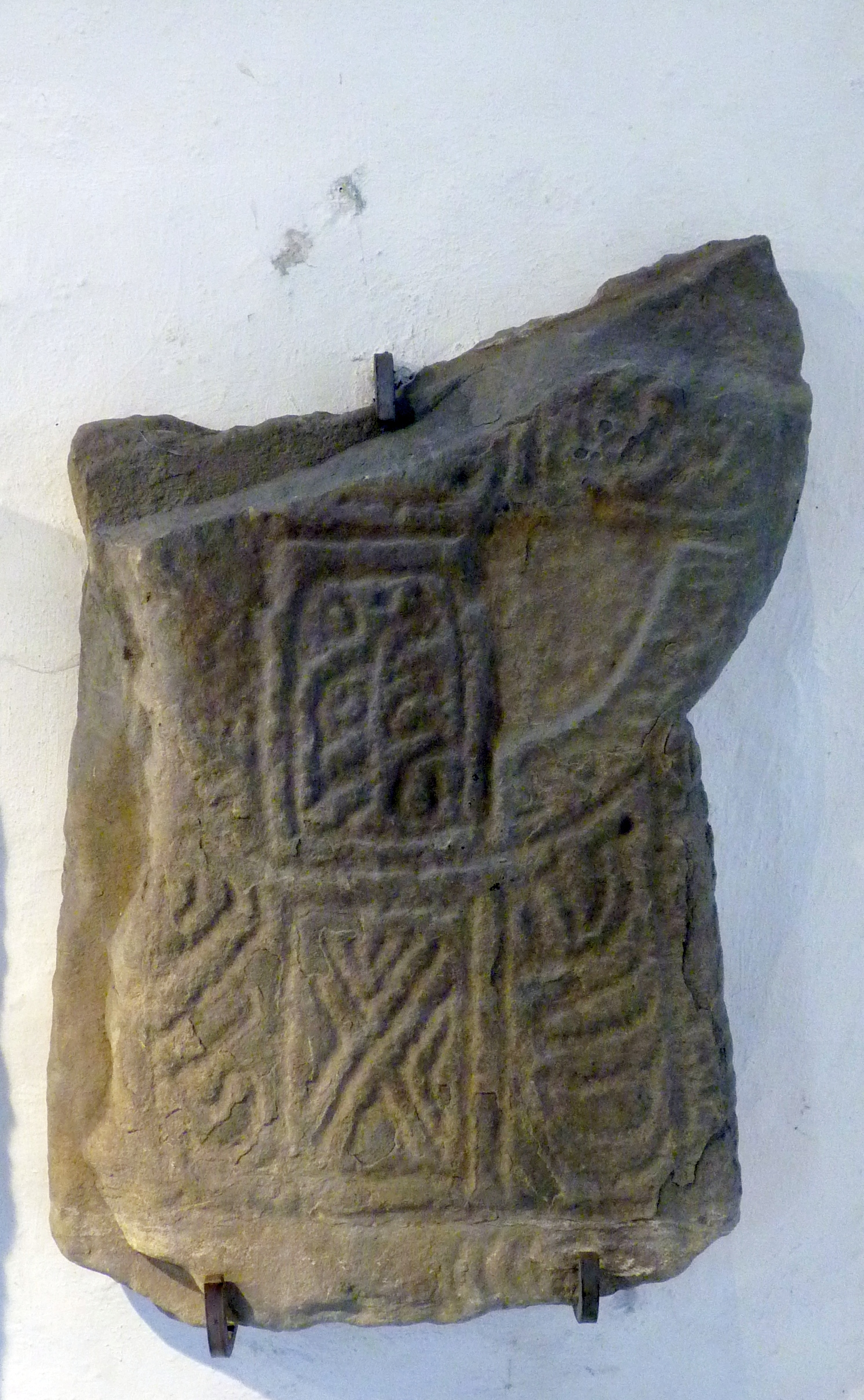 11th C cross with interlace pattern. Originally at Cwrt Uchaf Farm, Port Talbot (Now under the steelworks). It is now in the Margam Stones Museum nr Port Talbot.